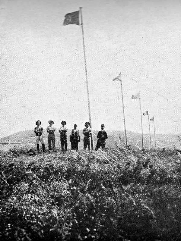 Photo of flags at Suda island